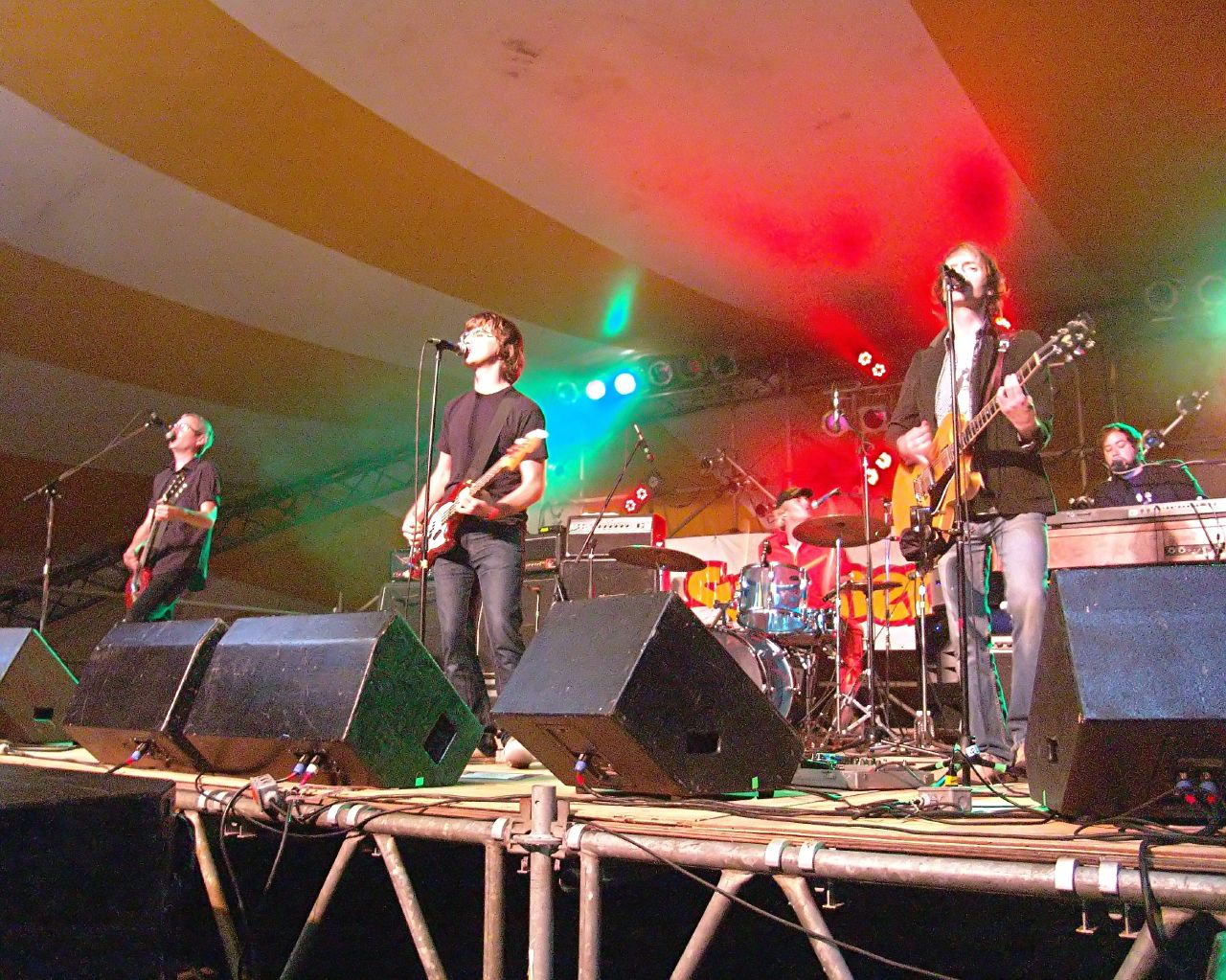 Sloan performing at the Sudbury Summerfest 2007 in Sudbury, Ontario, Canada